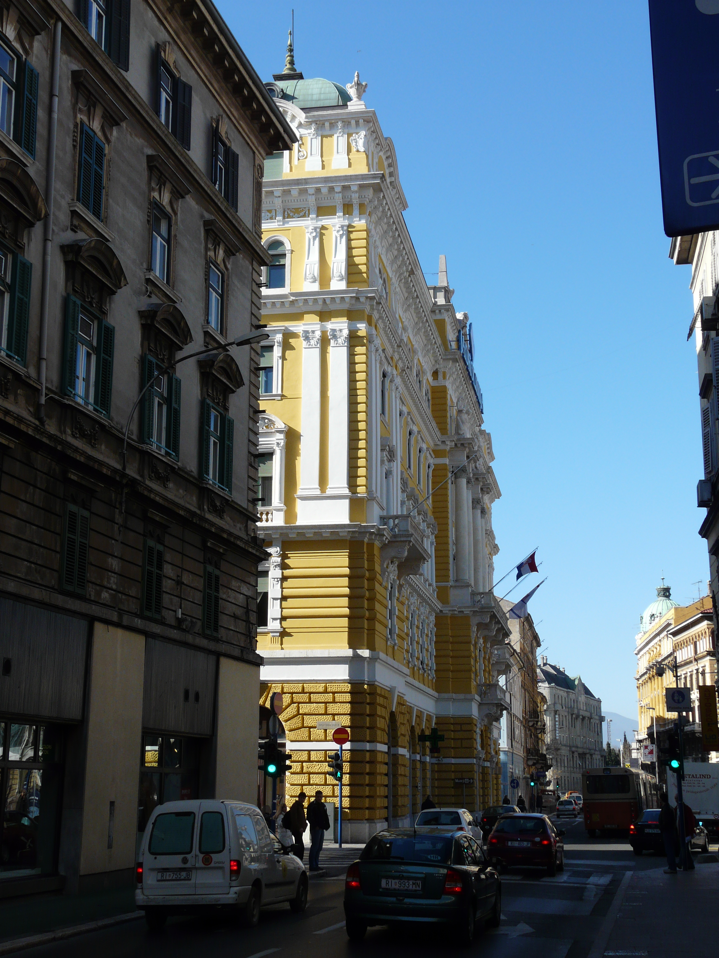 Palace Adria side at Jadranska Plaza in Rijeka